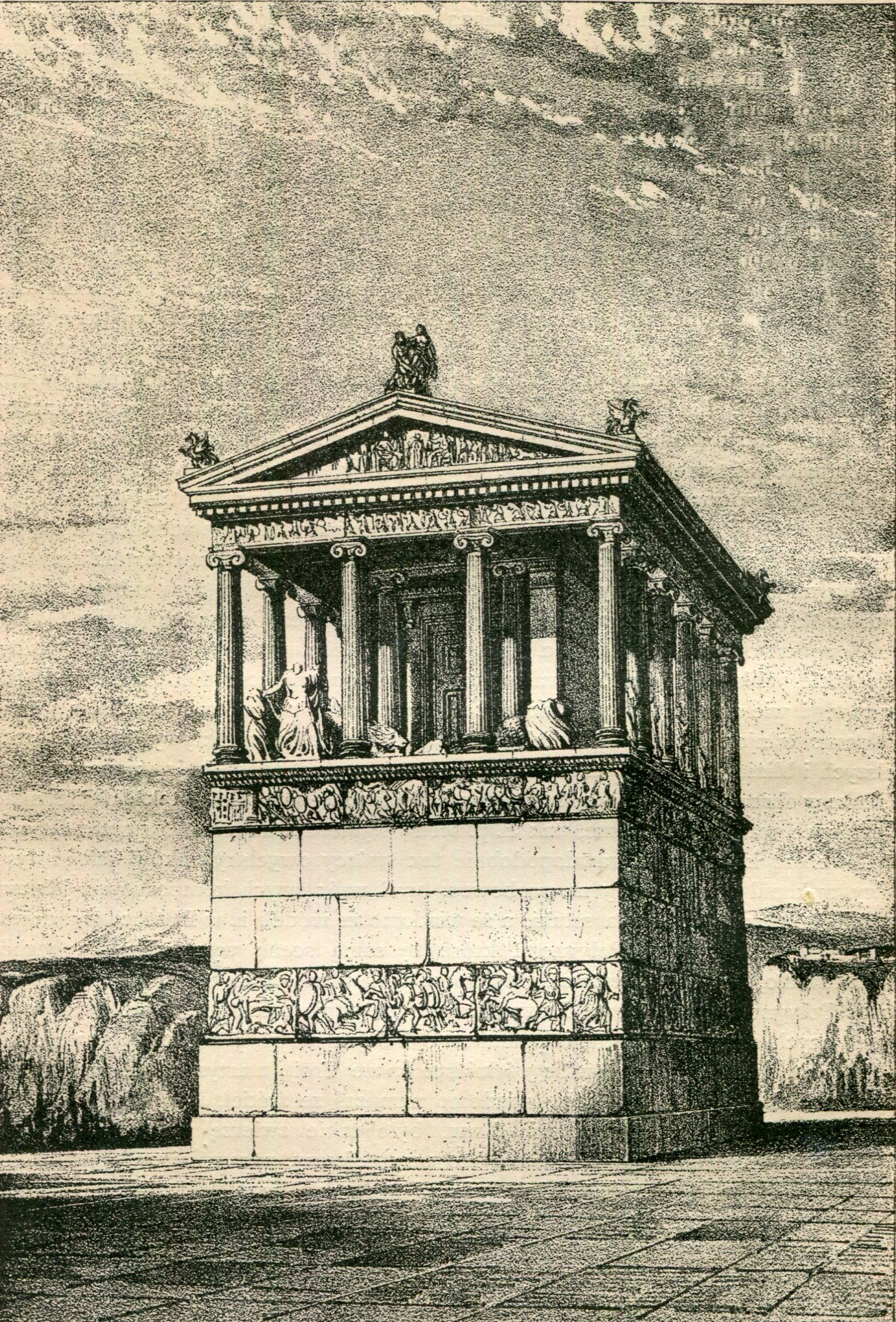 Nereid monument of Xanthos after the Falkener's reconstruction (Edward Falkener, The Museum of Classical Antiquities, London 1860)